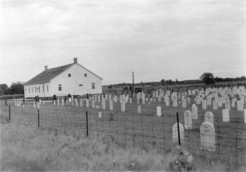 Martins Old Order Mennonite Church between Waterloo and St. Jacobs, Ontario in July, 1947. Citation: Mennonite Community Photograph Collection, The Congregation (HM4-134 Box 1 photo 011.4-2). Mennonite Church USA Archives, Goshen, Indiana.